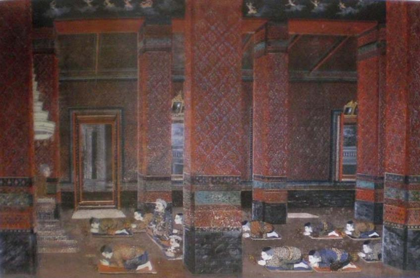 A painting of Ong Chiang Sua (Ông chưởng-sự), or Lord Nguyễn-phước-Ánh, an Annamese ruler, in audience with King Rama I in the Amarin Winitchai Throne Hall in Bangkok 1782. Note by princess Maha Chakri Sirindhorn.